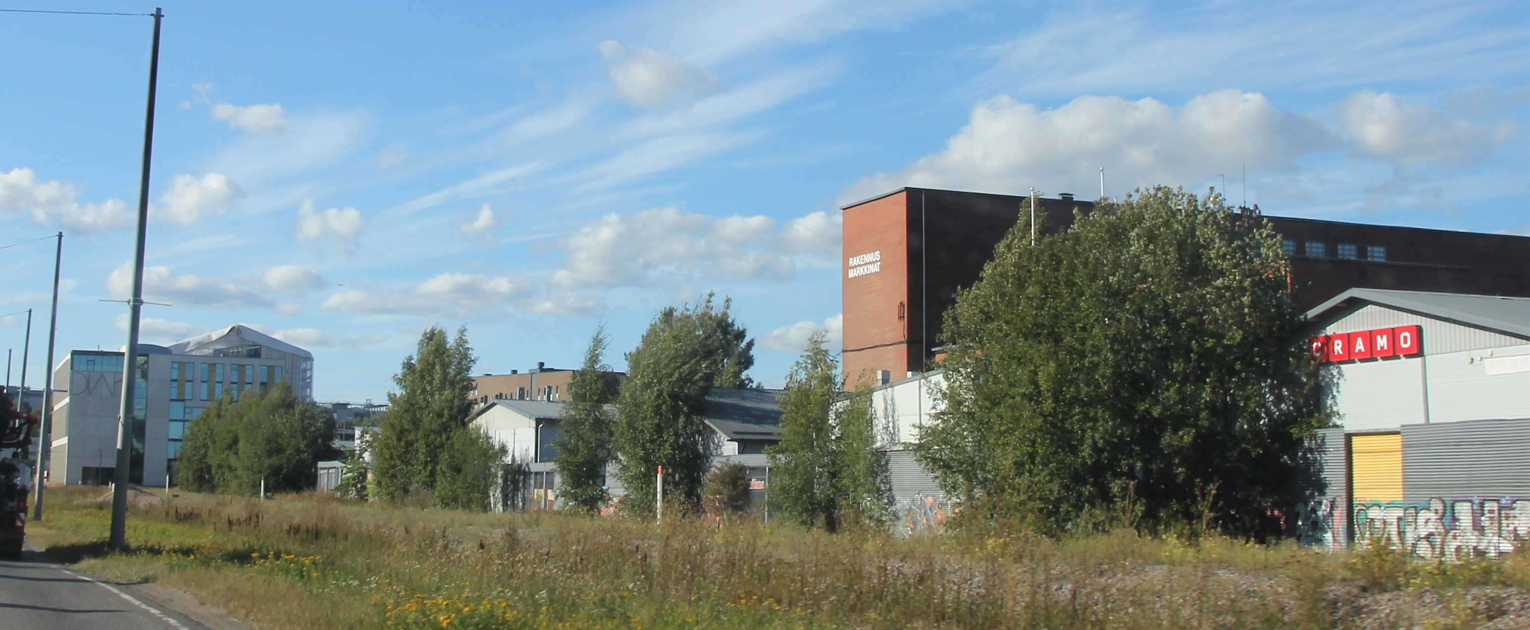 Partial view of Kyläsaari subarea in Helsinki. On the left-hand side of the photo is the building of the Diaconia University of Applied Sciences (Diak) Helsinki Campus, in Kyläsaari, Helsinki. Address: Kyläsaarenkuja 2, 00580 Helsinki. The red brick building shown in the right part of the picture is the Kyläsaari Recycling Center of Pääkaupunkiseudun Kierrätyskeskus Oy, aka Helsinki Metropolitan Area Reuse Centre Ltd.